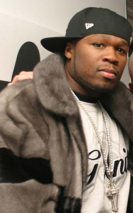 American hip hop artist 50 Cent.